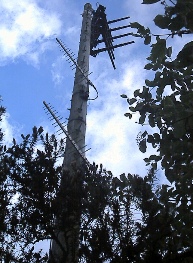 Close-up of the West Kirby television relay mast, Wirral, England.